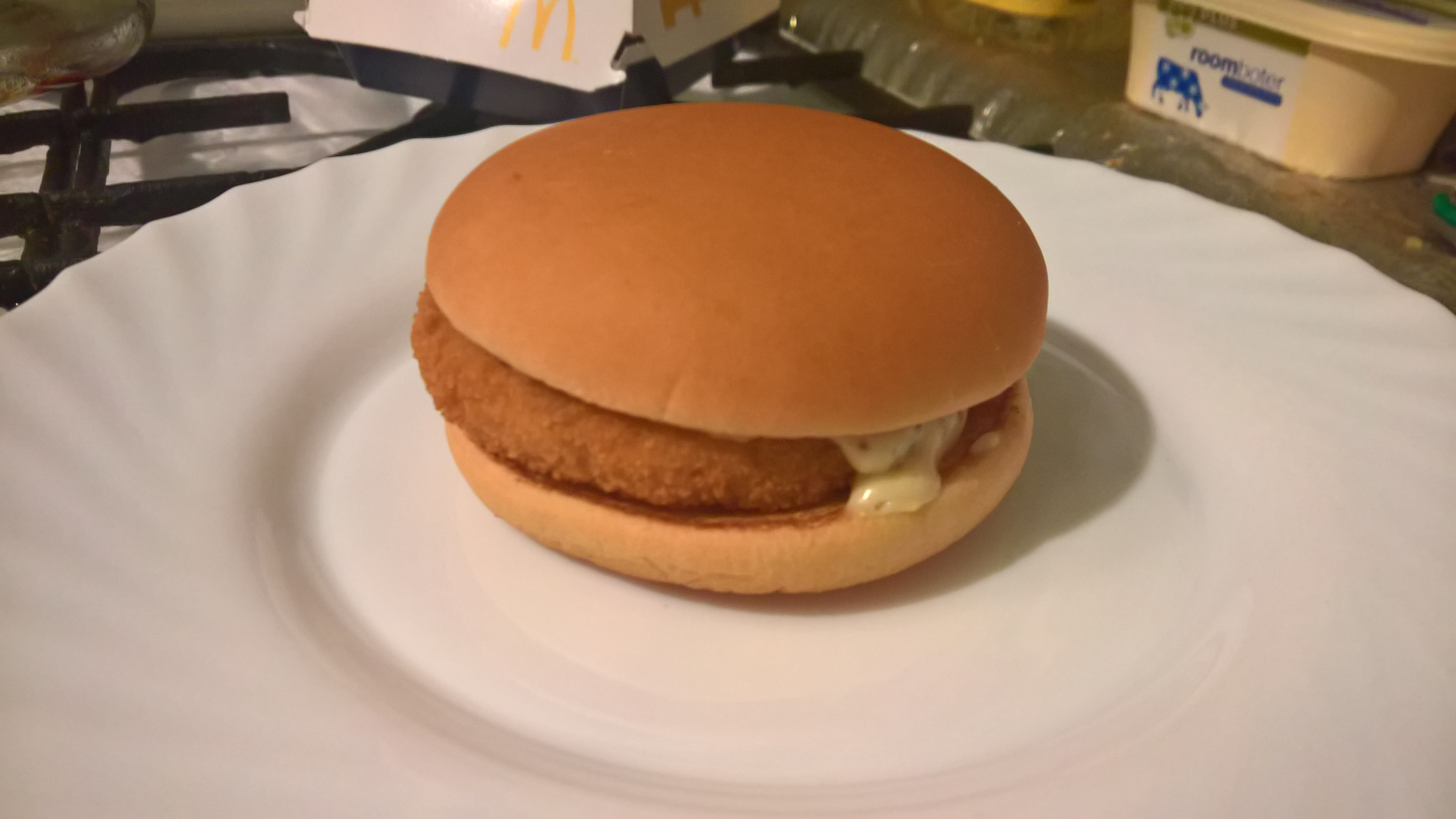 A McKroket from McDonald's Winschoten.